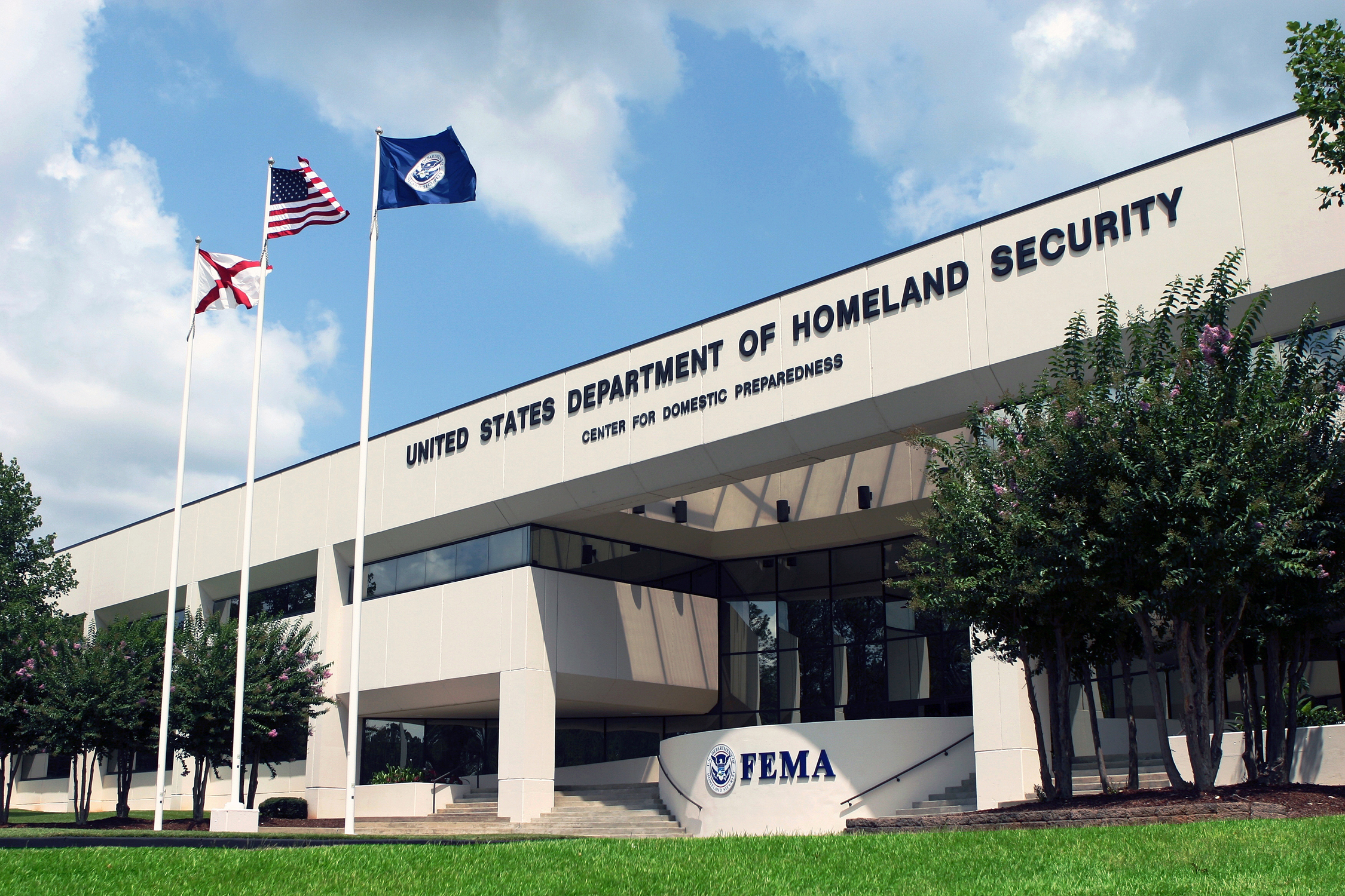 In June 1998, the Center for Domestic Preparedness (CDP) opened its doors as a training center for the nation’s emergency responders. The CDP is operated by the United States Department of Homeland Security’s Federal Emergency Management Agency and is the only federally-chartered Weapons of Mass Destruction (WMD) training facility in the nation. The CDP’s mission is to operate a federal training center for delivery of high-quality, comprehensive preparedness training programs for the nation’s emergency responders.